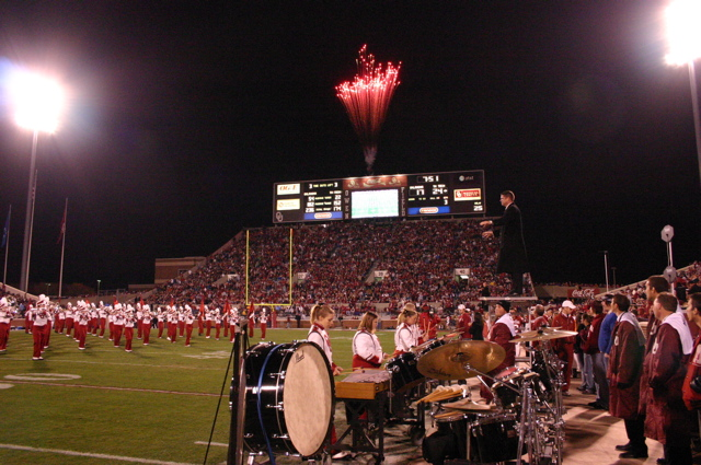 Fireworks go off during halftime show at Gaylord Family Oklahoma Memorial Stadium on November 11, 2006 Photo taken by Pride of Oklahoma photographer (University of Oklahoma) and released into public domain